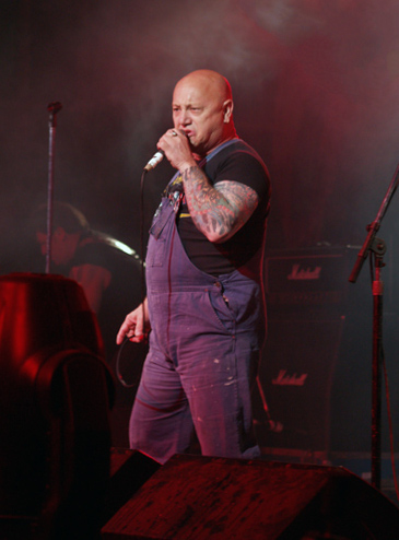 Rose Tattoo Meredith Music Festival December 2006